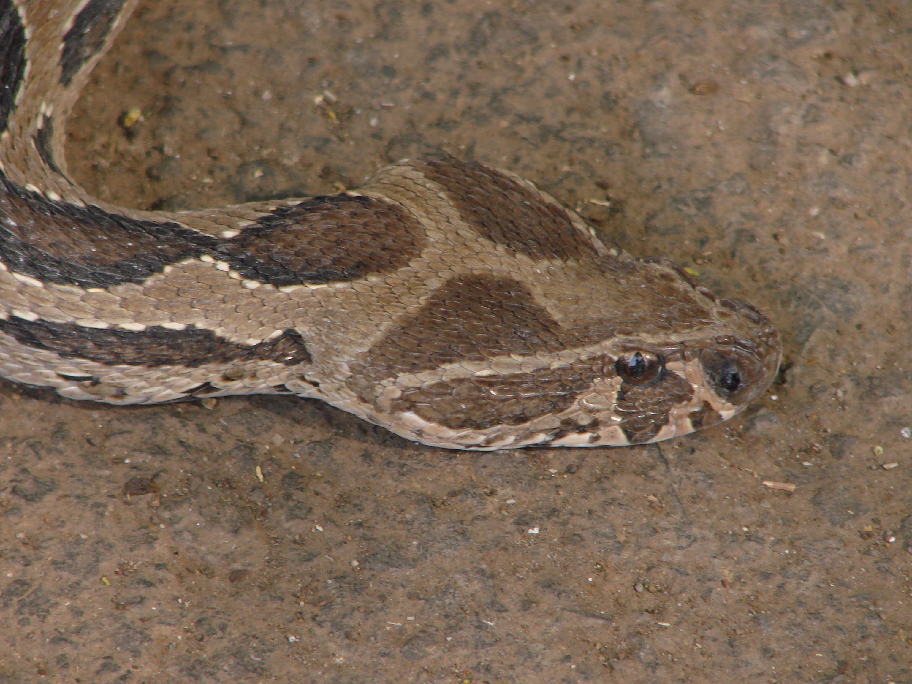 Head of Daboia russelii Russel's Viper in the CME Dapodi campus. Photographed by Abhinav Chawla (self).